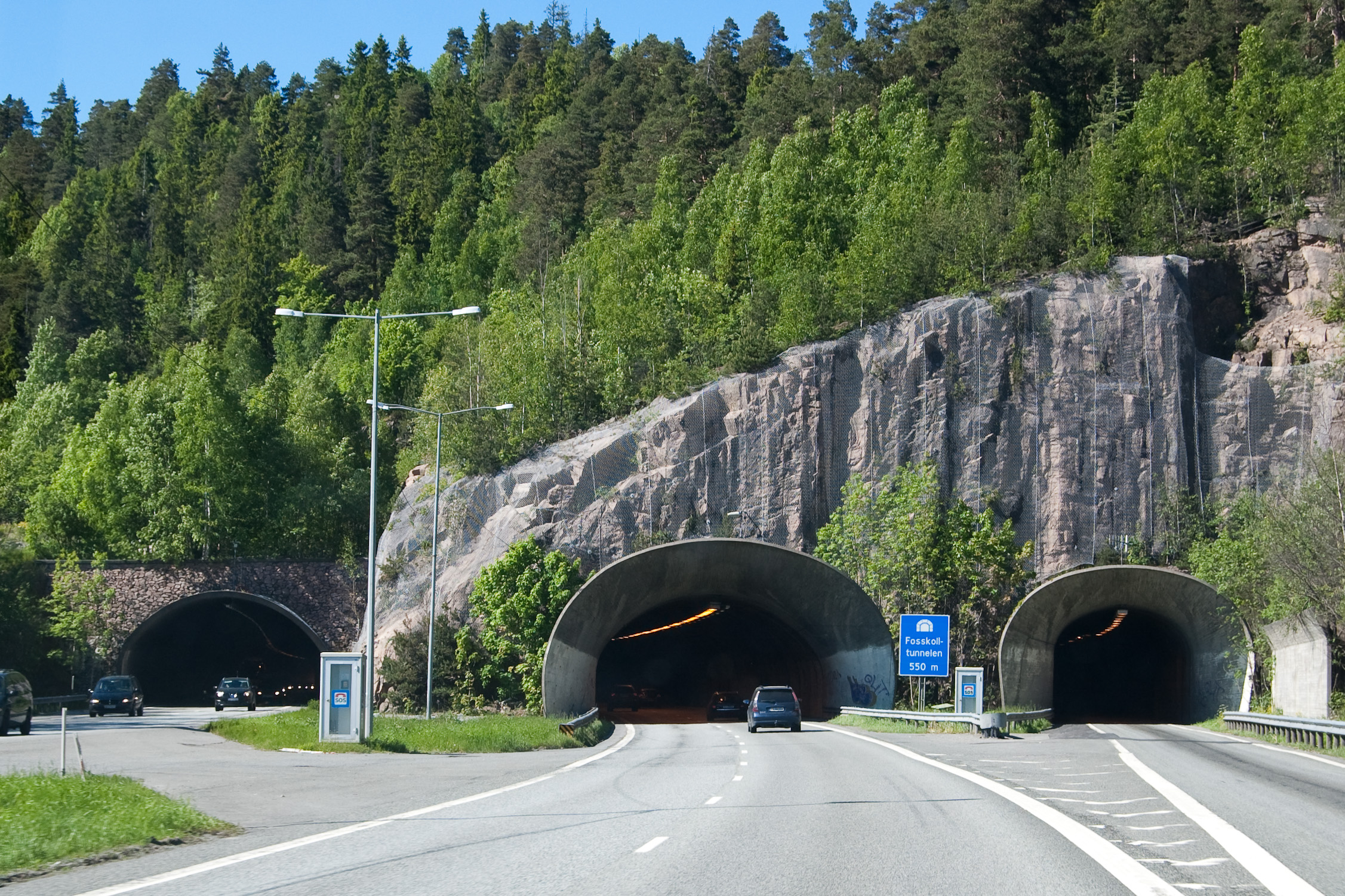 Fosskolltunnelen seen from the south, on E18 in Buskerud, Norway.